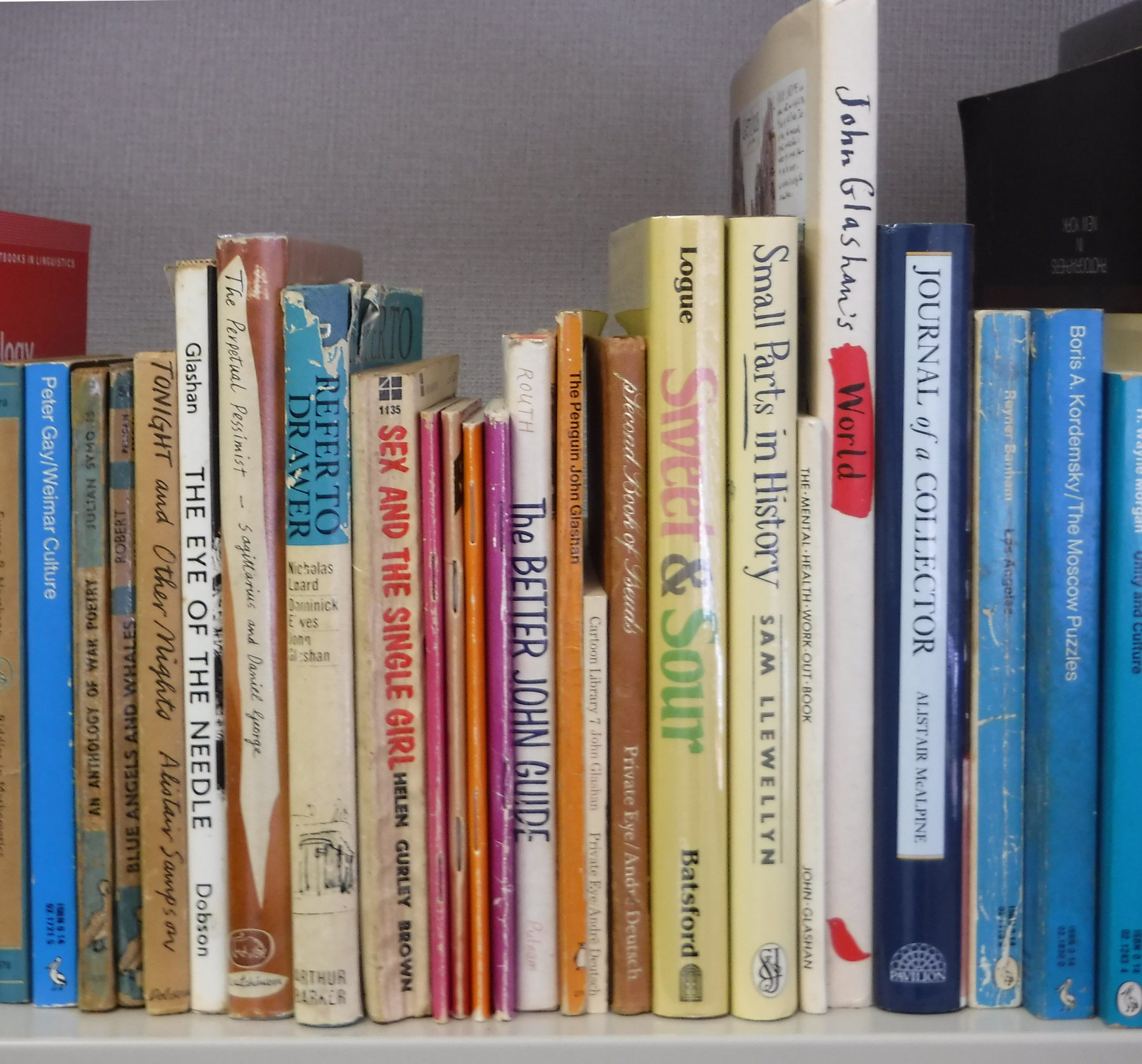 Books by, or with illustrations by, John Glashan (flanked by irrelevant Pelicans). The stapled booklets are the Good Loo Guide (two editions), the Good Cuppa Guide, and the Guide Porcelaine.